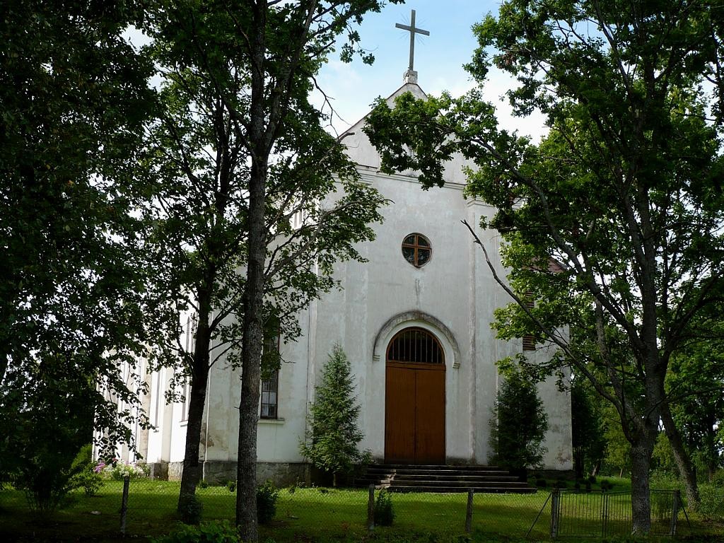 Saint John the Baptist church in Gudenieki, Latvia